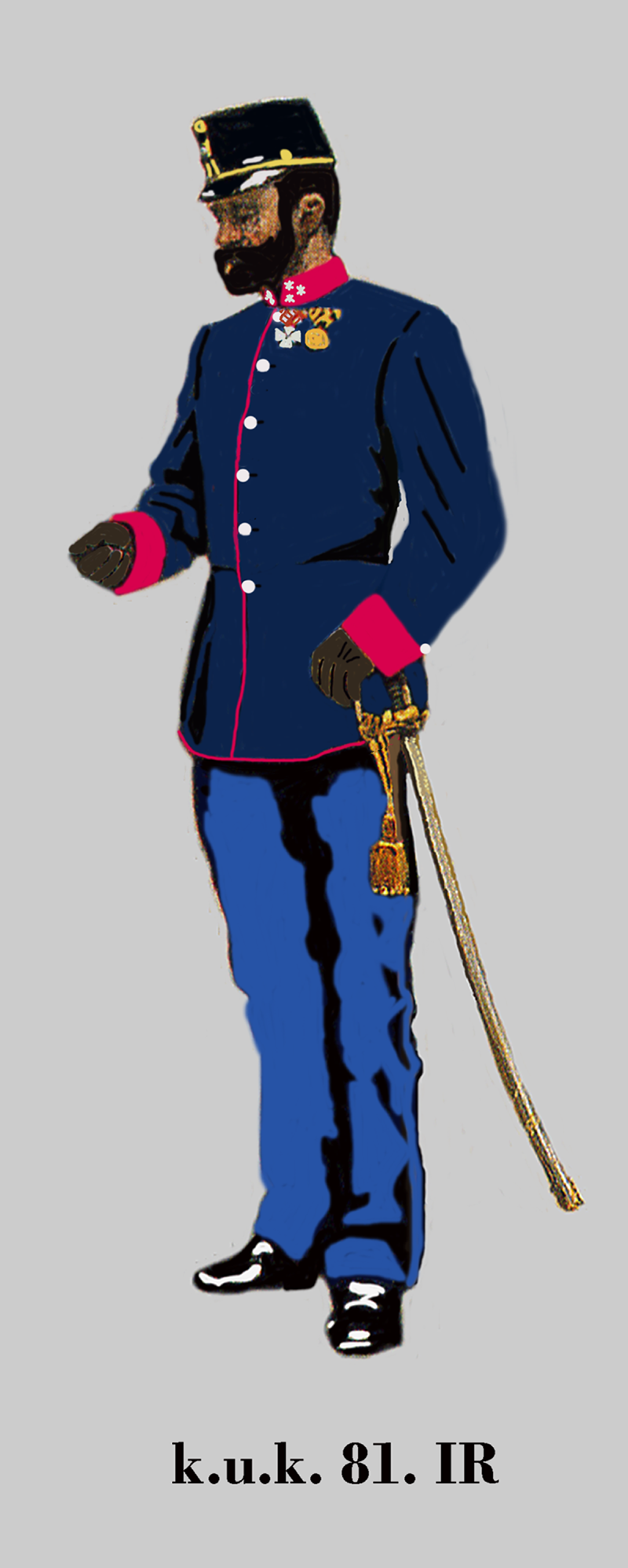 Captain of the Austria-Hungarian (k.u.k.). 81st german Infantry Regiment in Service dress 1914